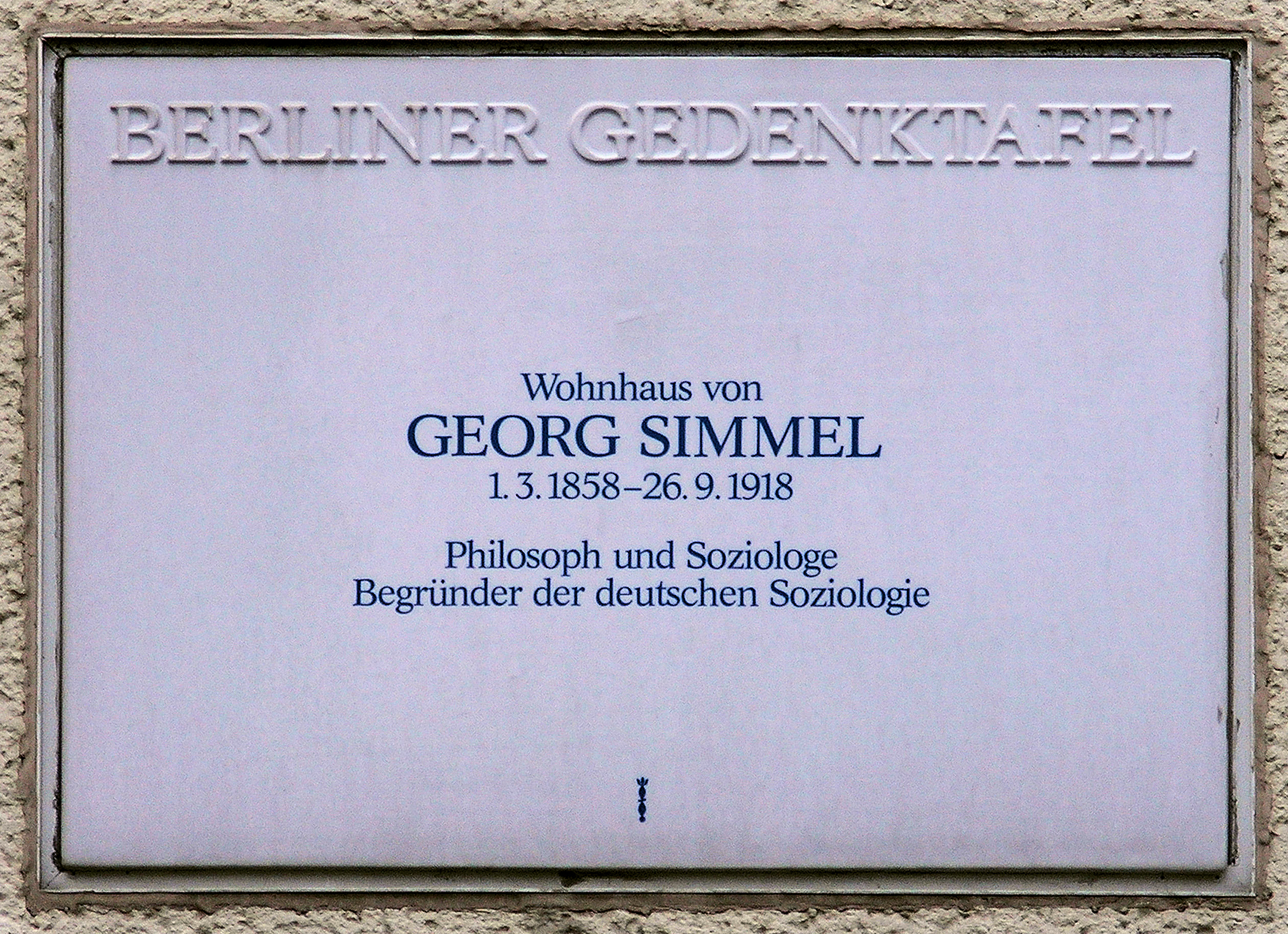 Berlin memorial plaque, Christopher Isherwood, Nußbaumallee 14, Berlin-Westend, Germany Koordinate:52°31′3″N 13°16′23″E / 52.5175°N 13.27306°E